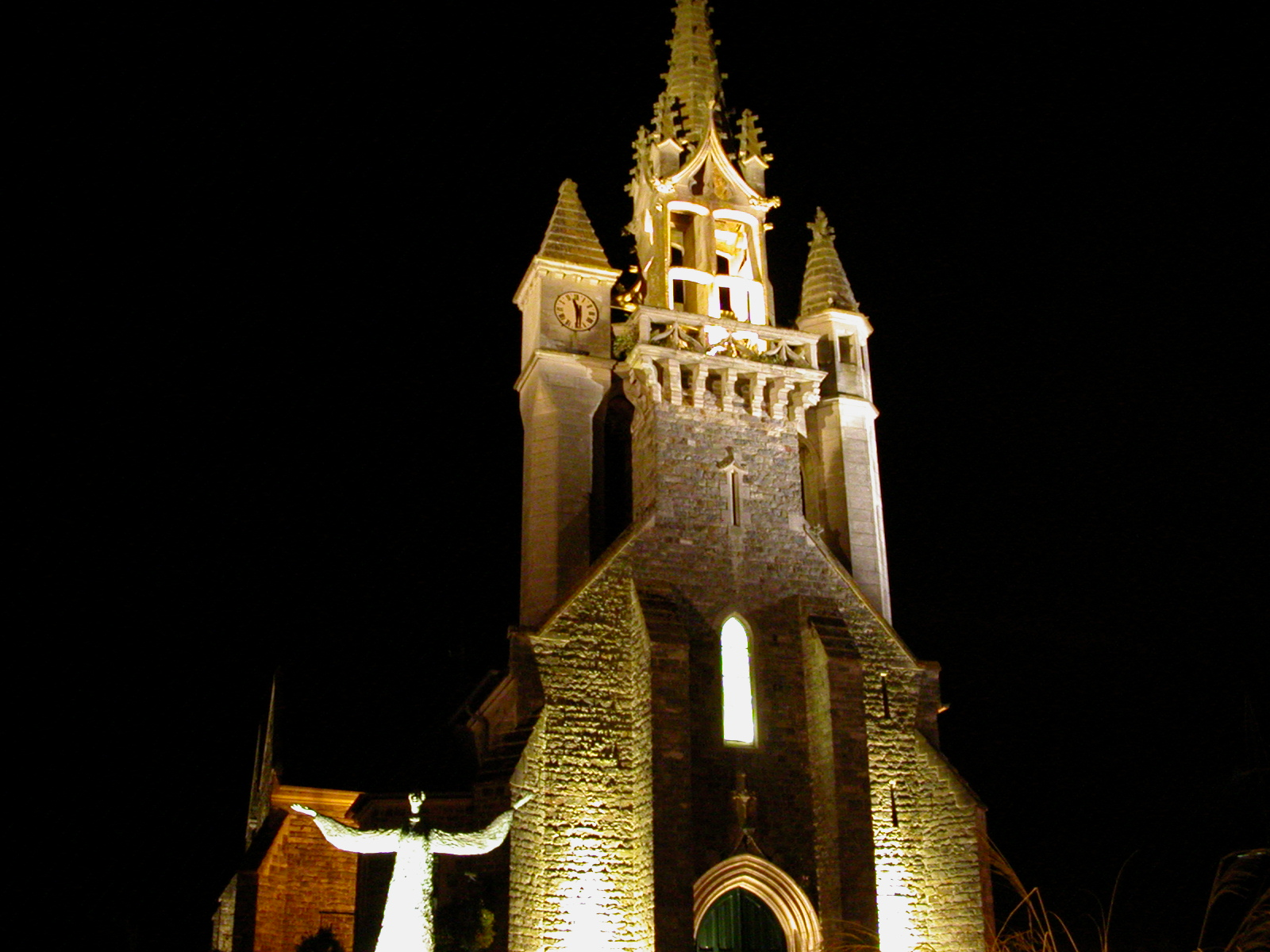 Church of Thorigné-Fouillard